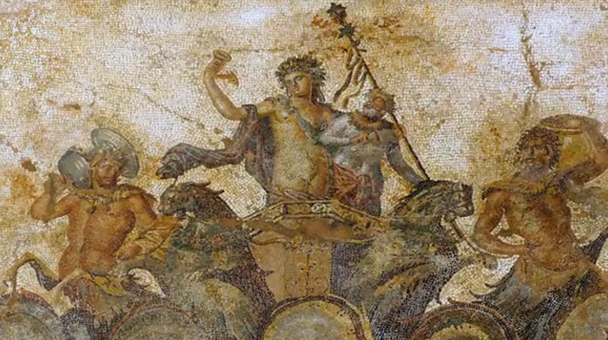 Dionysos Mosaic